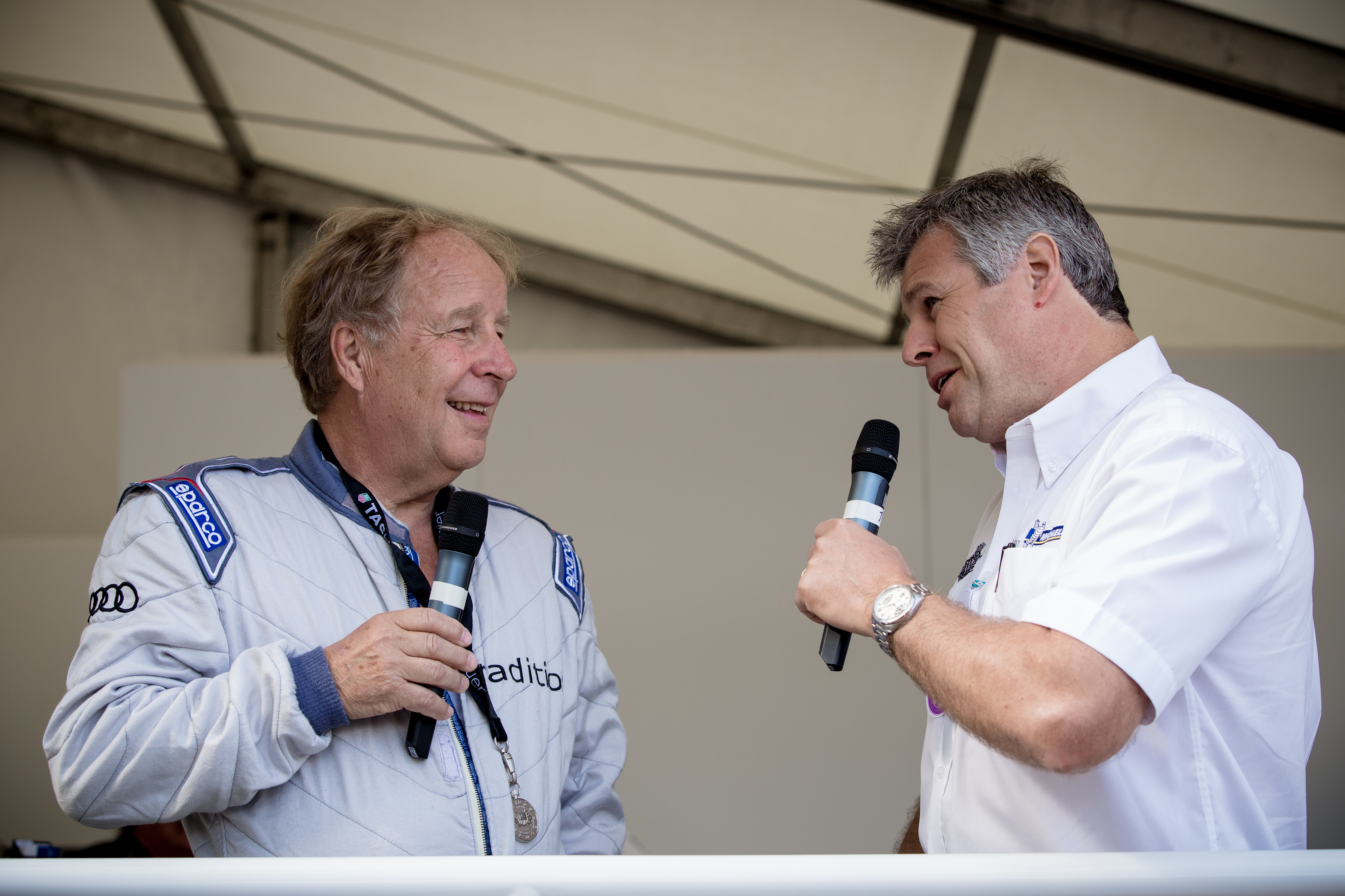 See more photos and video at